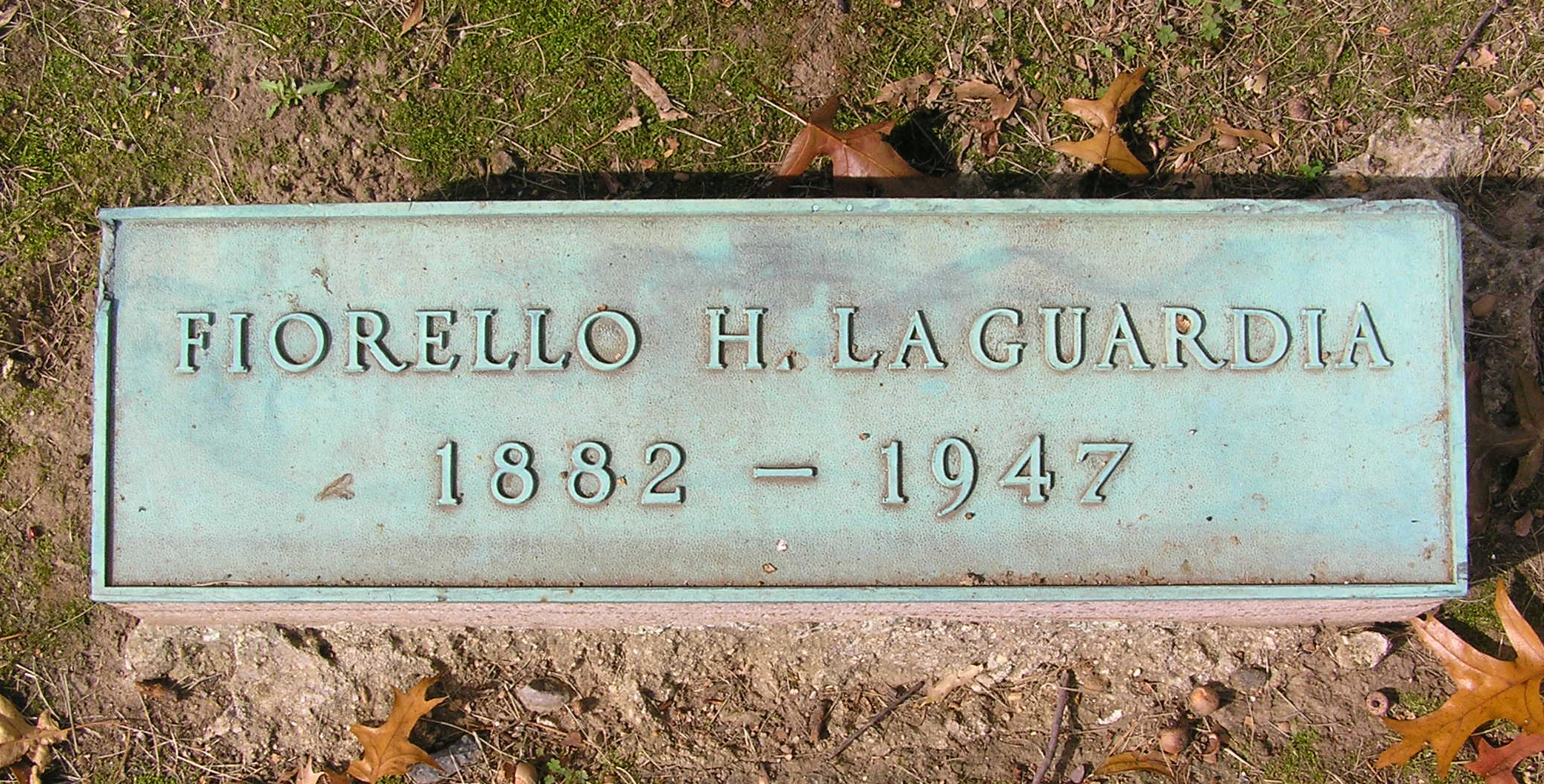 The footstone of Fiorello LaGuardia in Woodlawn Cemetery